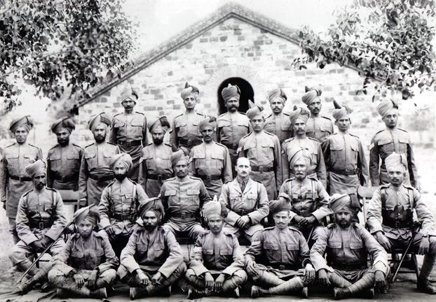 89th Punjabis (now 1st Battalion The Baloch Regiment, Pakistan Army), Nowshera, 1917.